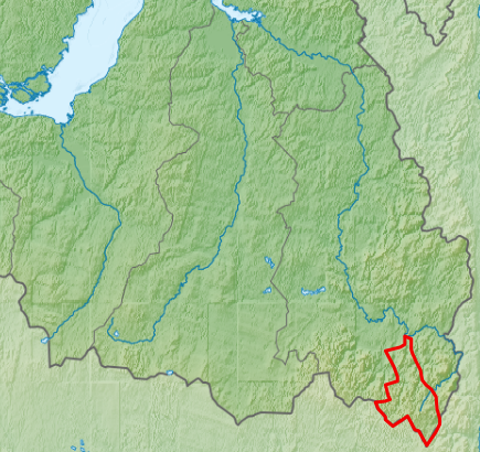 Upper Taz Nature Reserve (a Zapovednik), in the southeast of Yamalo-Nenetsky Autonomous Okrug, Russian Federation